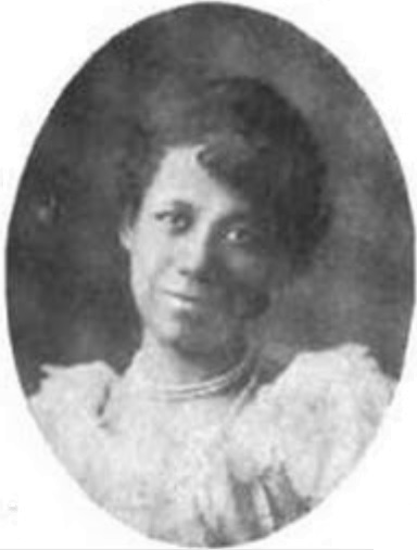 Picture of Carrie Williams Clifford